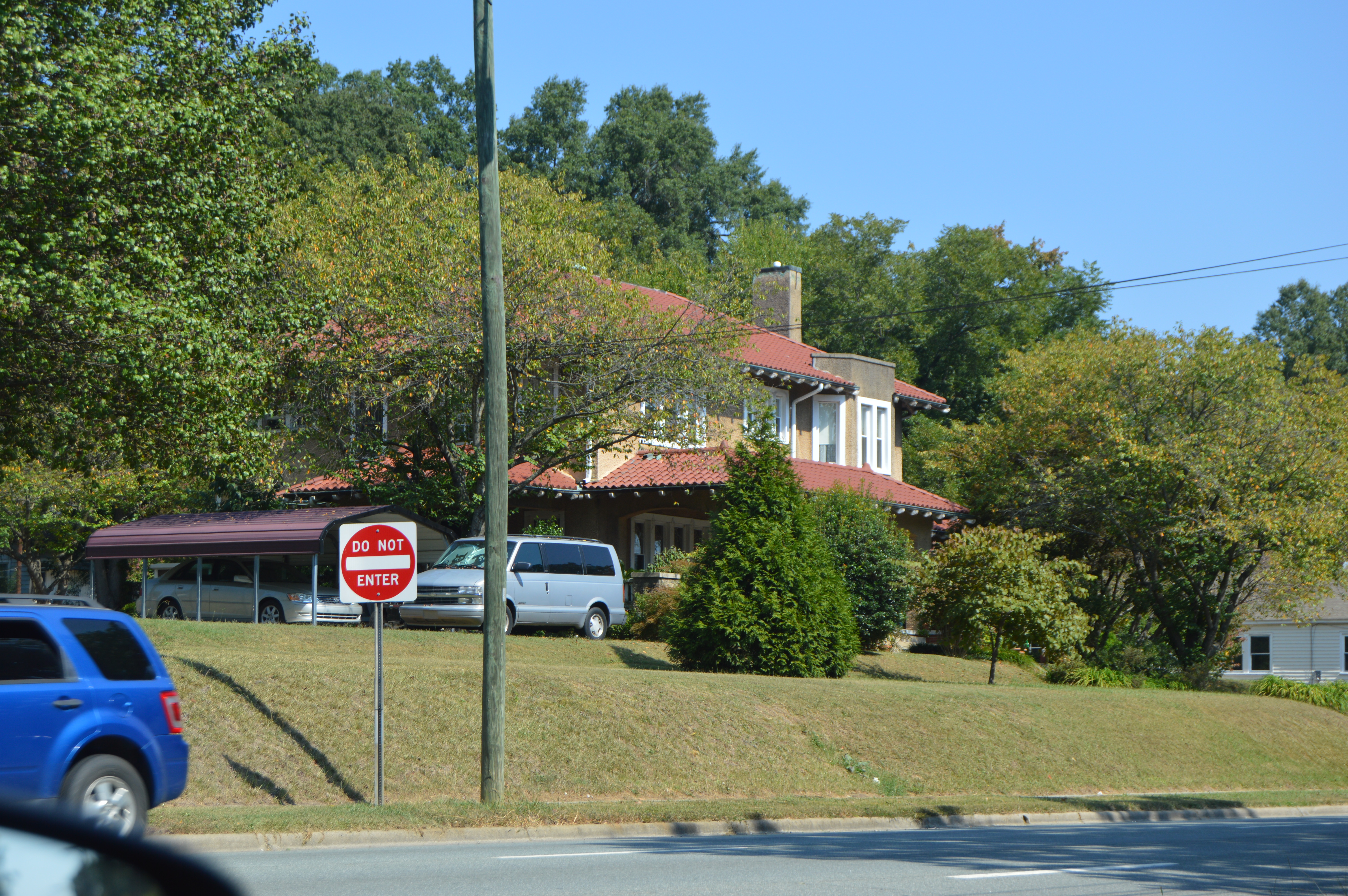 Street view of the Charles Horner House, located at 308 N. Fisher Street in Burlington, North Carolina, United States. Built in 1921, it is listed on the National Register of Historic Places together with the adjacent Earl Horner House.